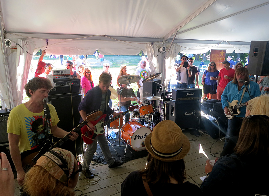 The Lemonheads at RadioBDC's "Island In The Sun" event on Thompson Island in Boston Harbor on Saturday, August 23rd, 2014.